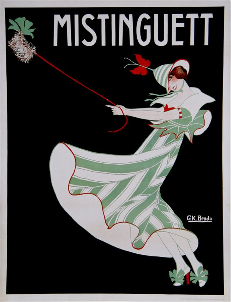 Poster for Mistinguett, 161 x 119 cm.